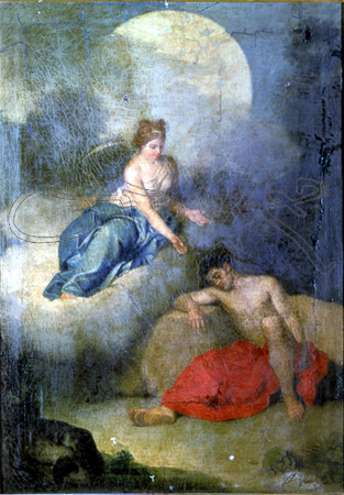 Painting of Diana and Endimion. 1780 By Domingo Alvarez Enciso